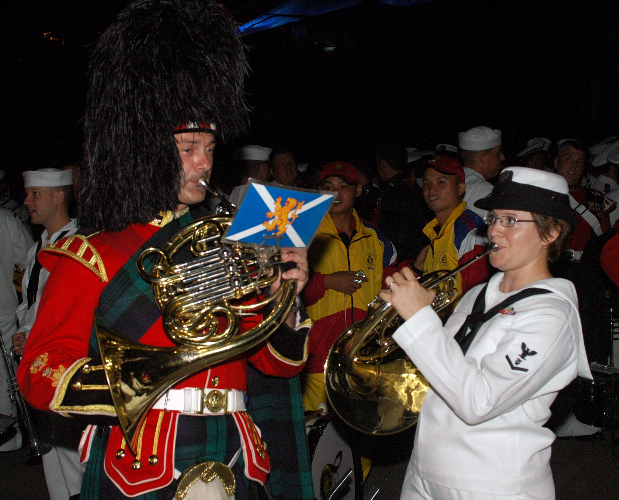 Petty Officer 3rd Class Helena Giammarco, musician in the Pacific Fleet band, plays the French horn backstage with a friend from the Royal Regiment of Scotland following the second night of performances at the Kuala Lumpur International Tattoo 2007. The Tattoo, scheduled for Sept. 6-8, celebrates the 50th anniversary of Malaysia's independence and features international military bands from the United States, Jordan, Brunei, France, India, the Republic of the Philippines, the Republic of Singapore, the Kingdom of Thailand, Korea, the Islamic Republic of Pakistan, the United Kingdom, and a Maori cultural group from New Zealand. (U.S. Navy photo/Petty Officer 1st Class Shane Tuck)